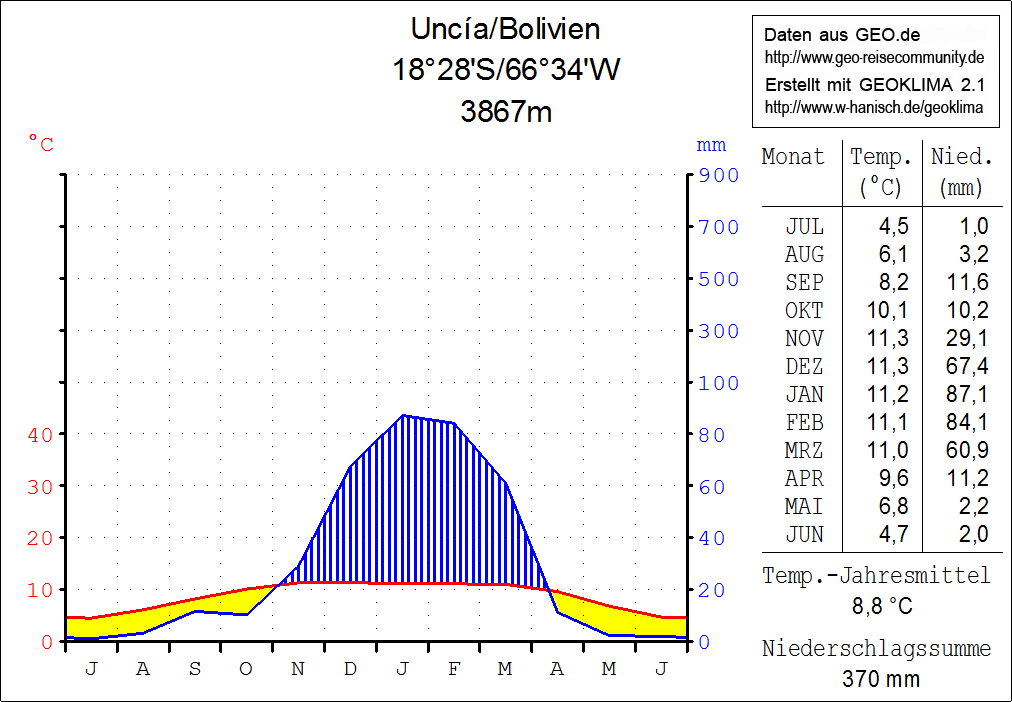 Climate chart in the Walter and Lieth format, metric, °Celsius und millimeters, made with Geoklima 2.1